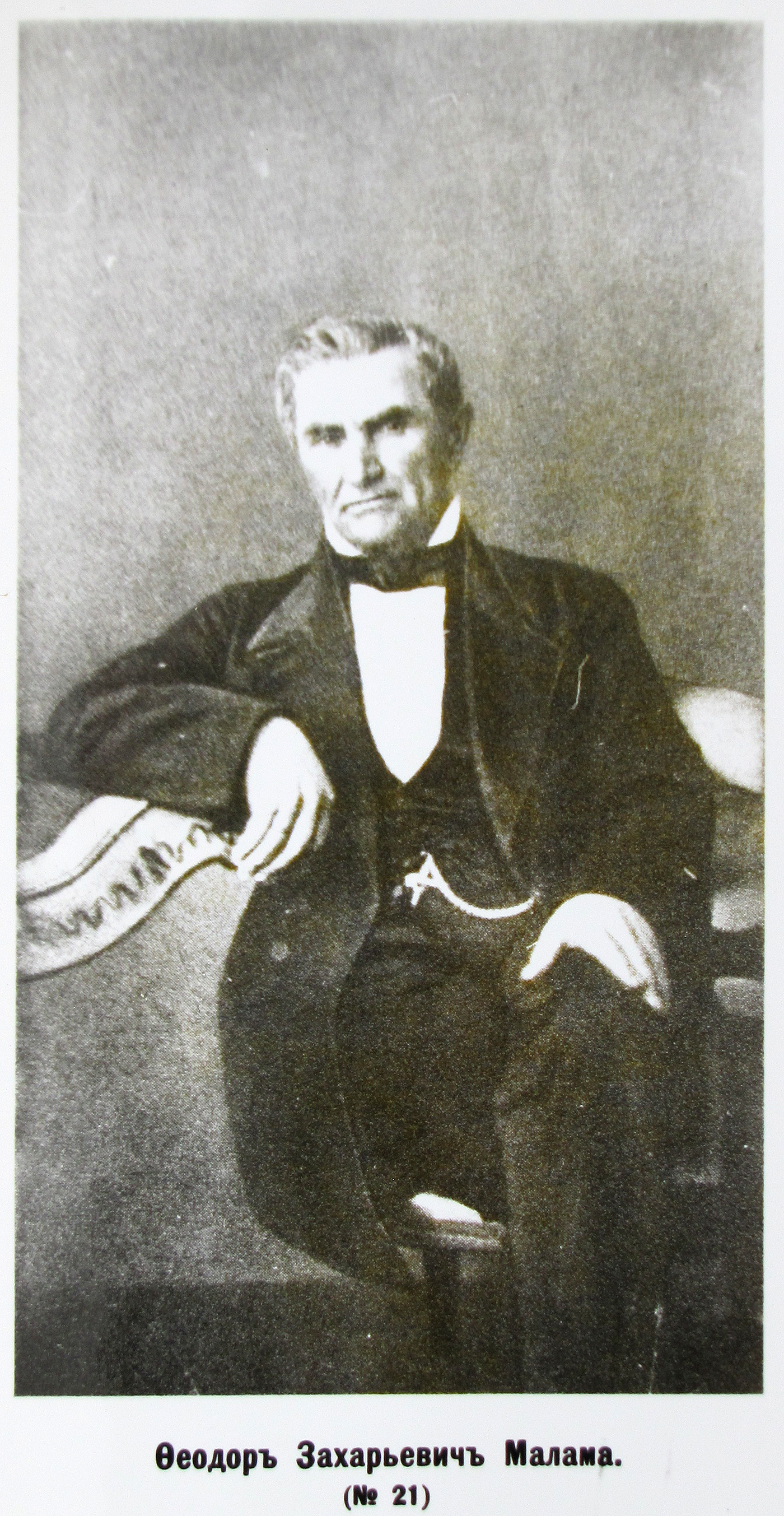 Fedor Zakharovich Malama